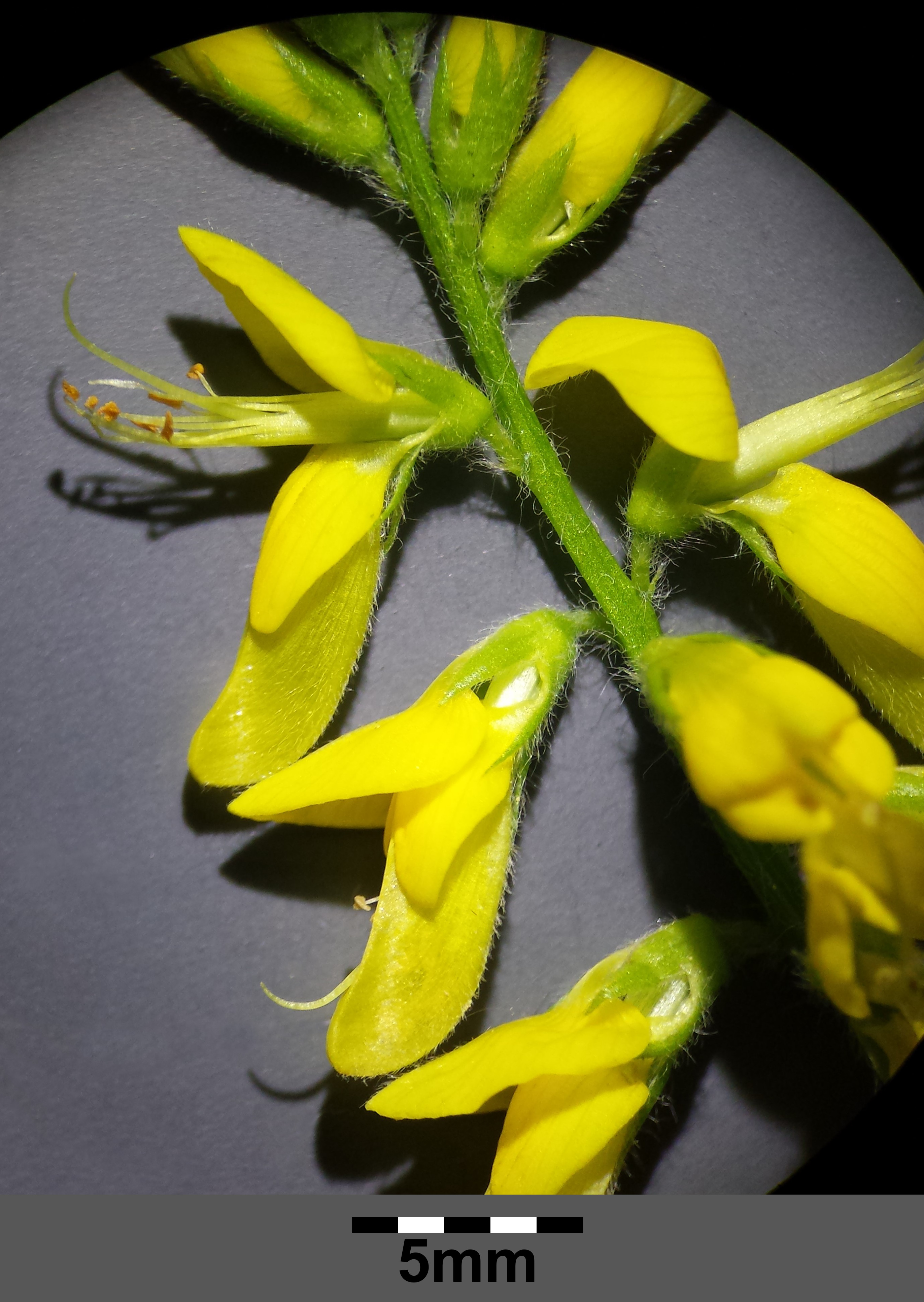 Florescence Taxonym: Genista germanica ss Fischer et al. EfÖLS 2008 ISBN 978-3-85474-187-9 Location: Rohrwald, district Korneuburg, Lower Austria - ca. 300 m a.s.l. Habitat: deciduous forest